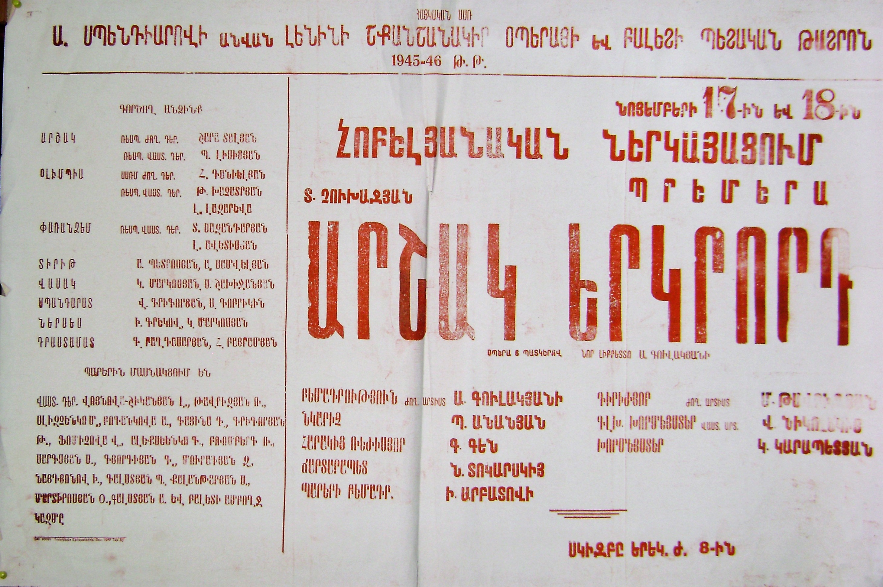 Poster of the opera "Arshak II" premiere in Yerevan. 17.11.1945